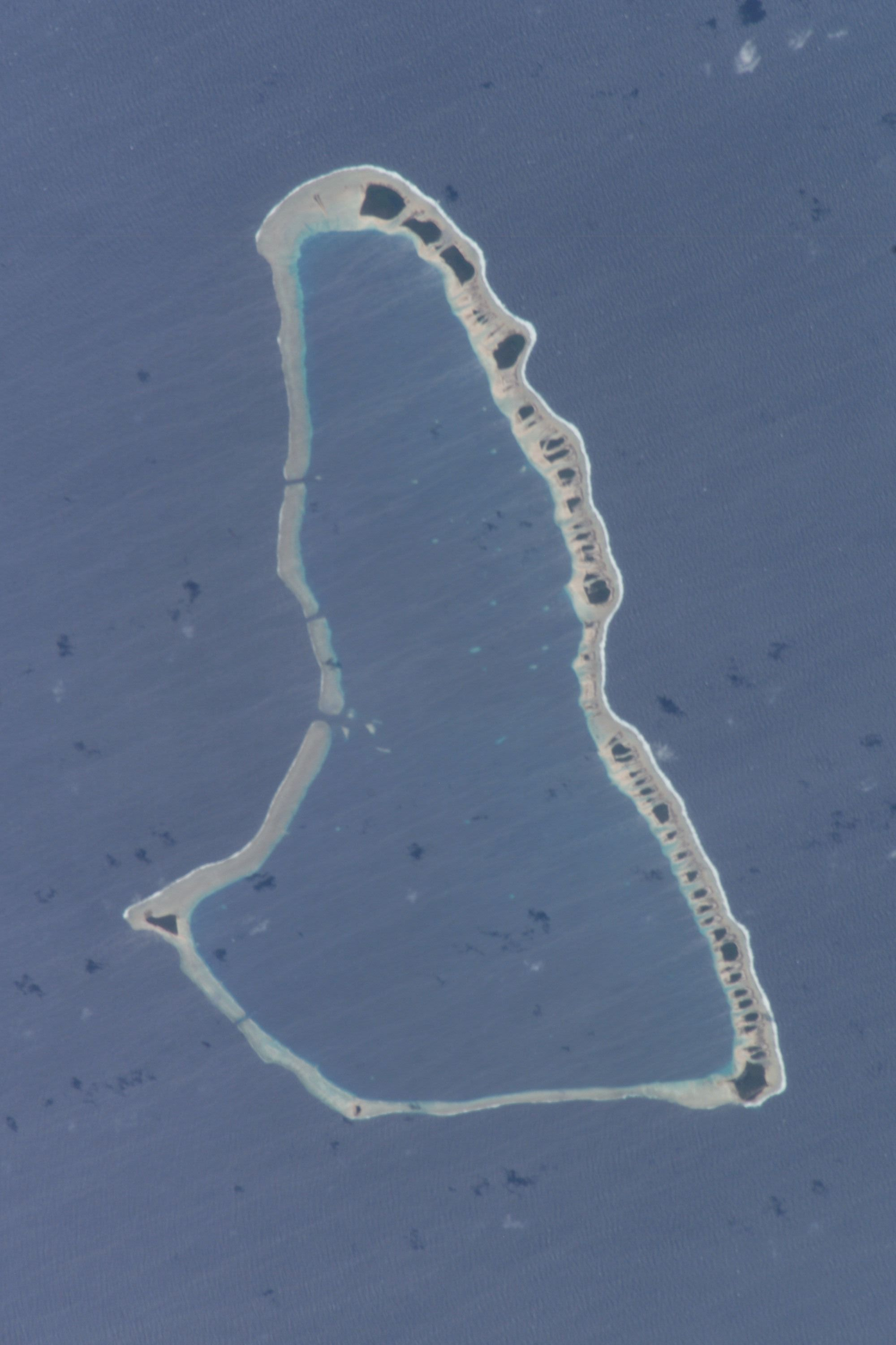 NASA Astronaut Image of Ailuk Atoll (Ratak Chain, Marshall Islands) in the Pacific Ocean